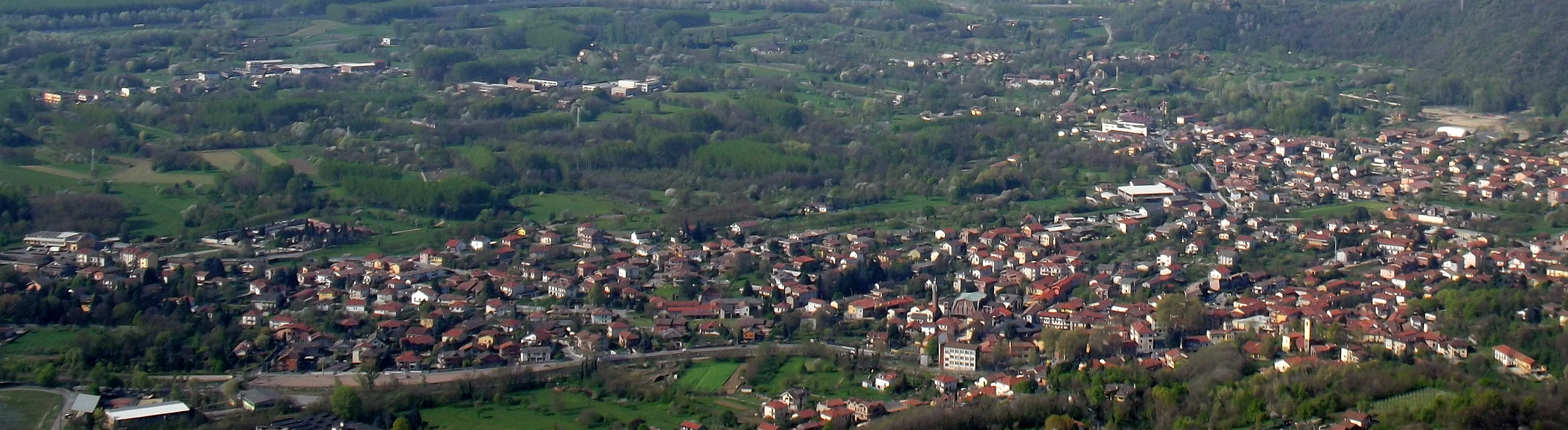 Almese (TO, Italy): panorama from pilone Mollar